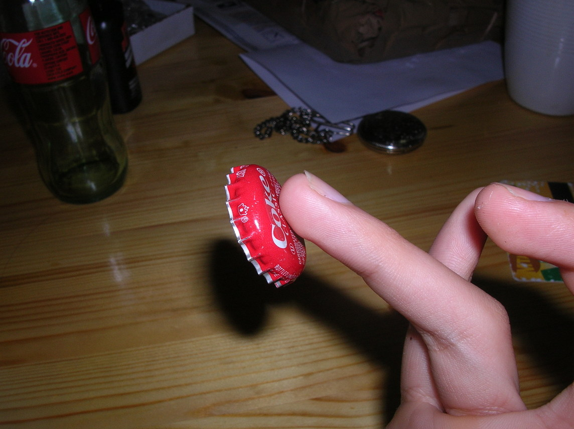 Playing around with my magnet implant.